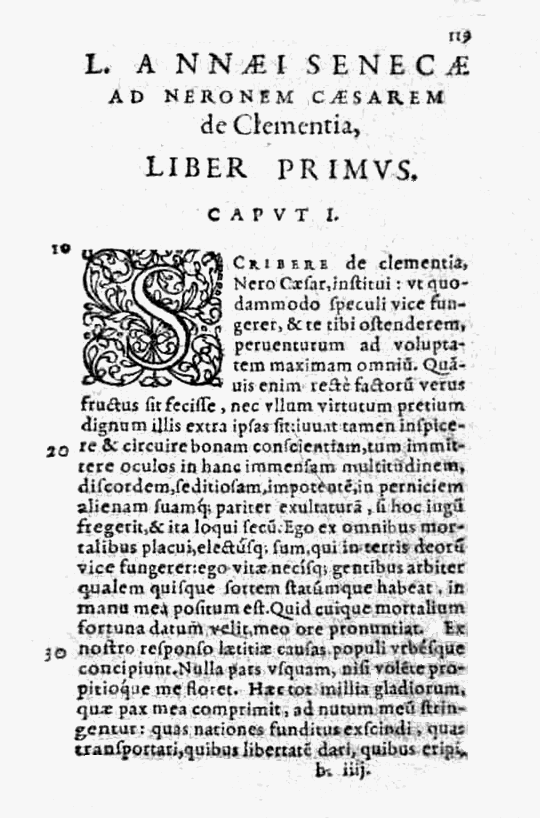 Page 119 of L. Annaei Senecae operum tomus secundus. (1594). Published by Jean Le Preux.